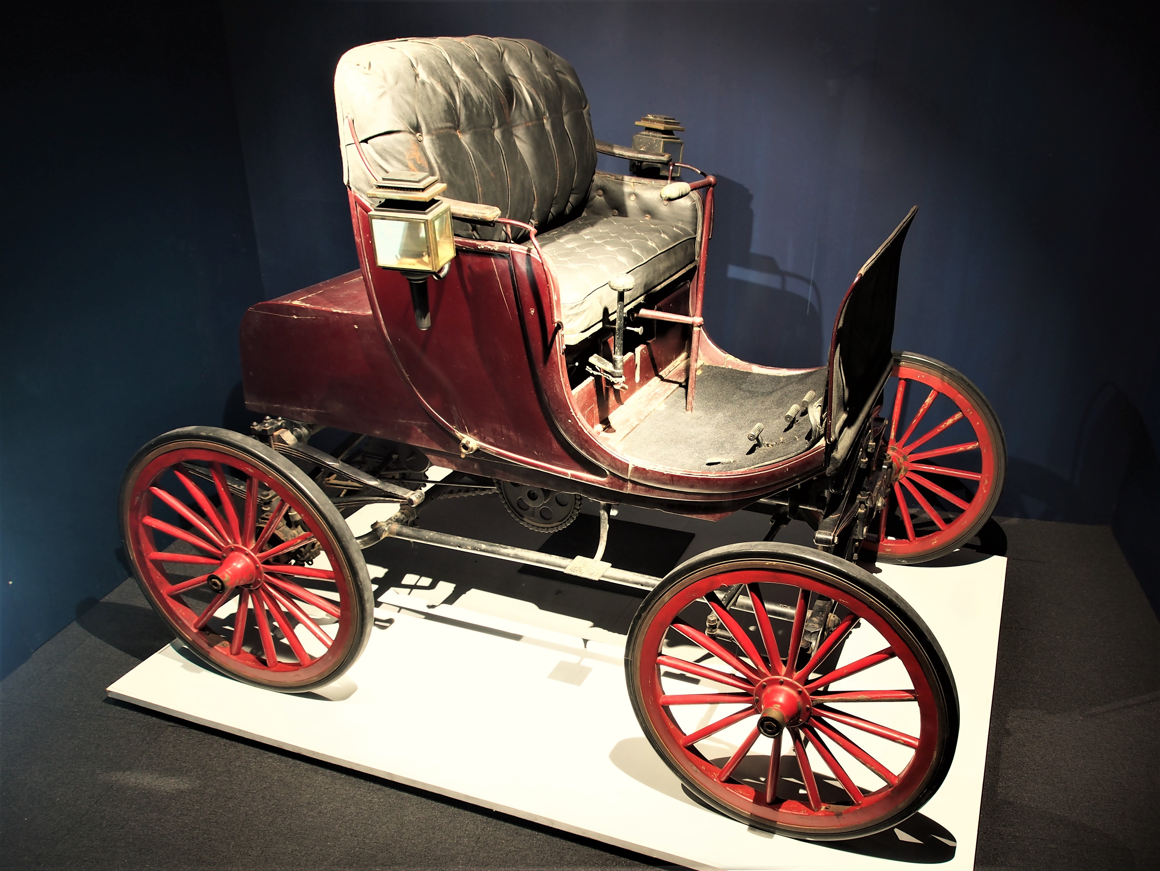 1895 Buffum Four Cylinder Stanhope photographed at the Louwman museum.